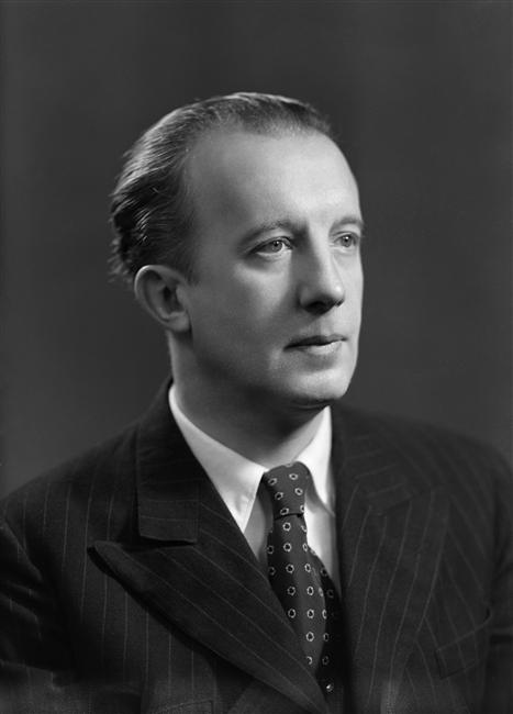 Studio photo